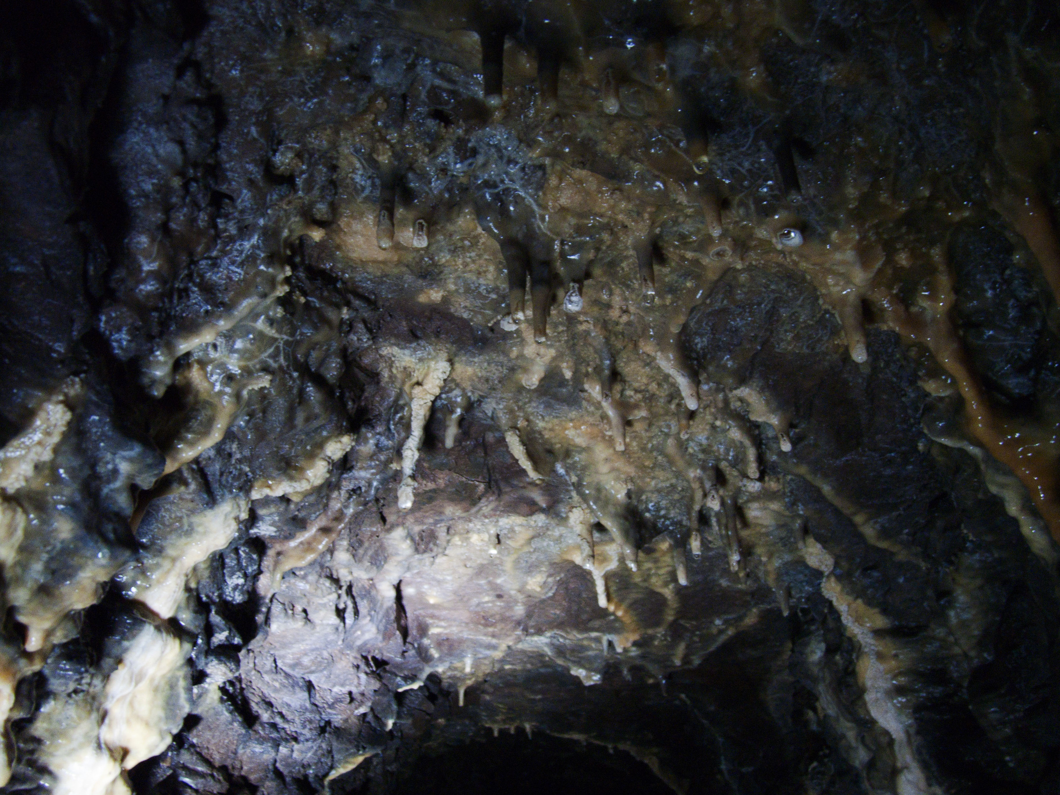 Stalactites in the Elias adit in the village of Úsilné, České Budějovice District, Czech Republic.